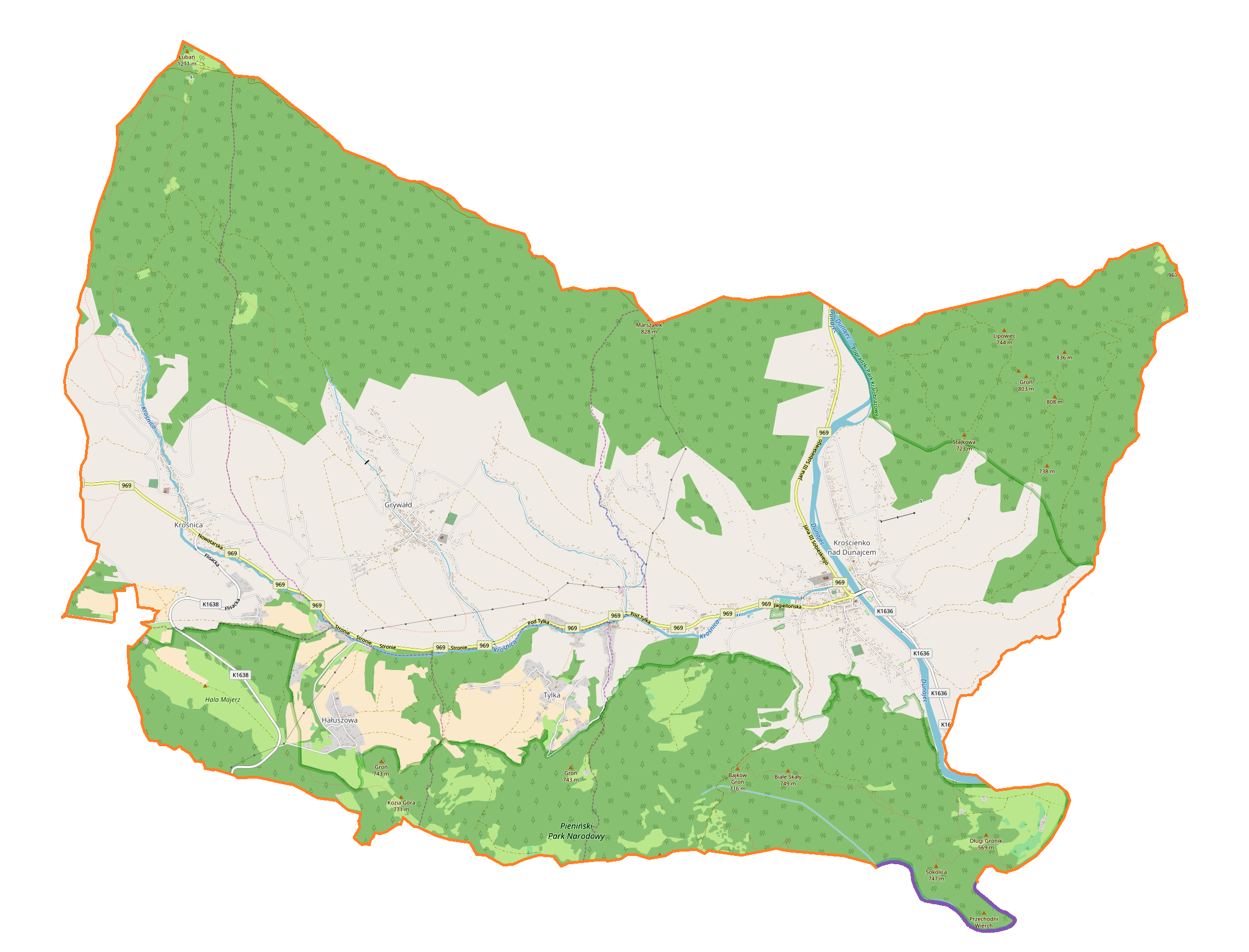 Location map